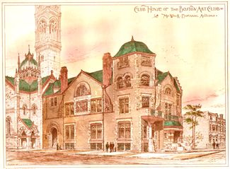 copy of winning architectural design for the Boston Art Club House